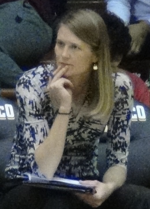 Linda Lappe, University of San Francisco women's basketball assistant coach, on the bench for San Francisco's game against San Jose State at Kezar Pavilion on Dec. 6, 2016 in San Francisco.